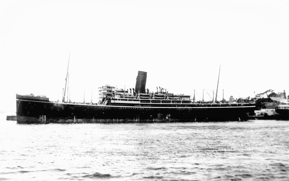 SS Mongolia (1922), of the P&O Line; sailed from London to Australia and New Zealand. Later the SS Rimutaka, the SS Europa, the SS Nassau, and finally the SS Acapulco. Scrapped 1963.